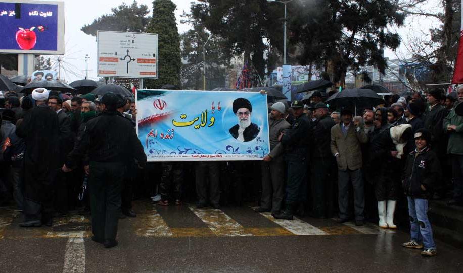 Bahman 22-1391-11 February 2012 in Nishapur